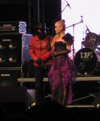 Aural Vampire at Anime Friends 2010 in São Paulo, Brazil